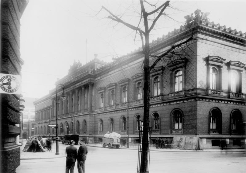 The photo shows the building of the German National Bank (Reichsbank) constructed in 1891. The street name "Werderstraße" used as title by German Federal Archive is wrong. The building was located on the south side of Jägerstraße 34-38, next street south of Werderstraße. 1934/1940 an additional building extended Reichsbank to Werderstraße, which might have caused the error.